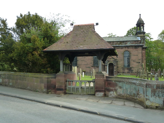 Photograph of the Lychgate of St Peter's Church, Aston by Sutton